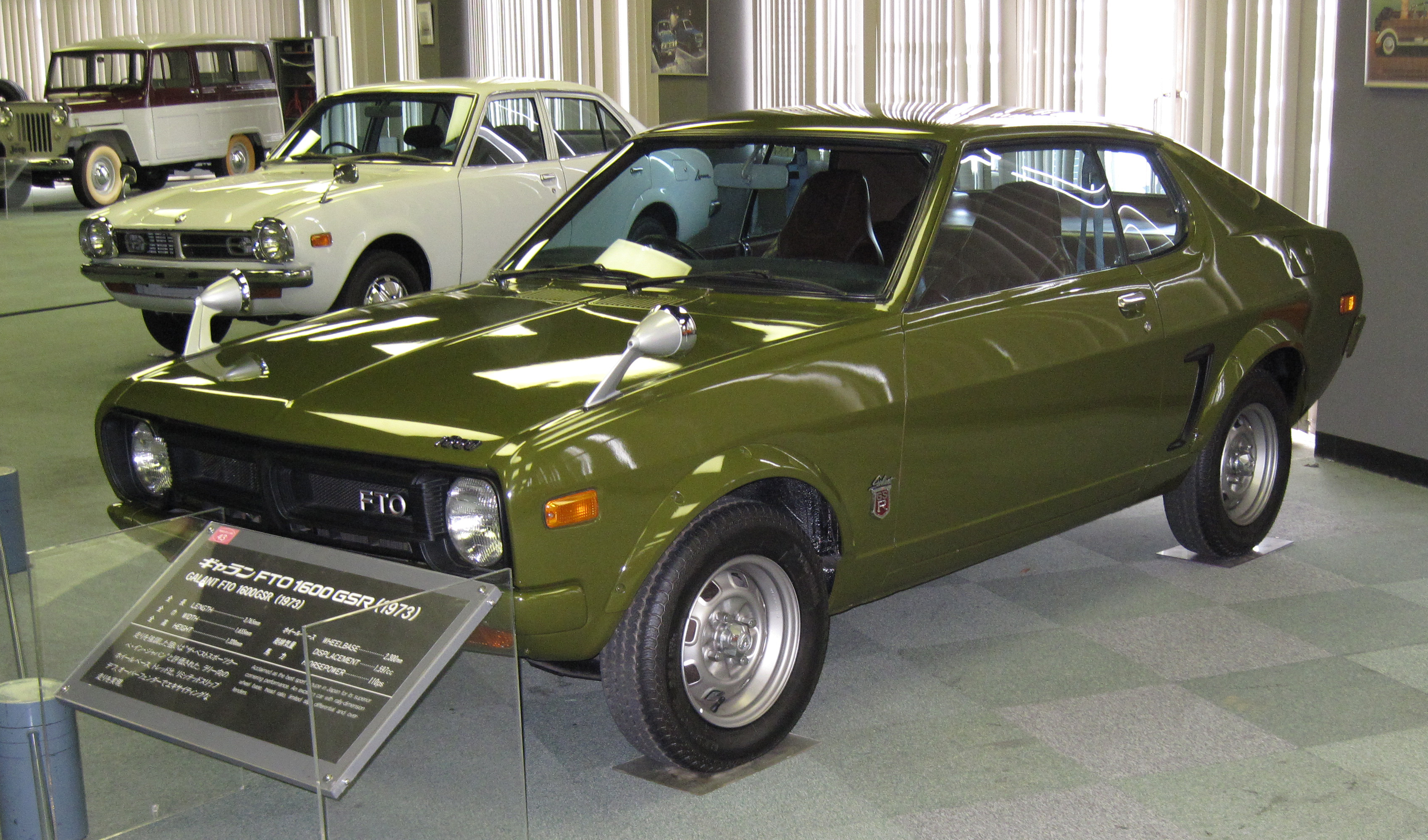 This is a photo of a 1973 Mitsubishi FTO I took inside the museum for the Mitsubishi "Passenger Car Engineering Center" in Okazaki-city, Aichi, Japan